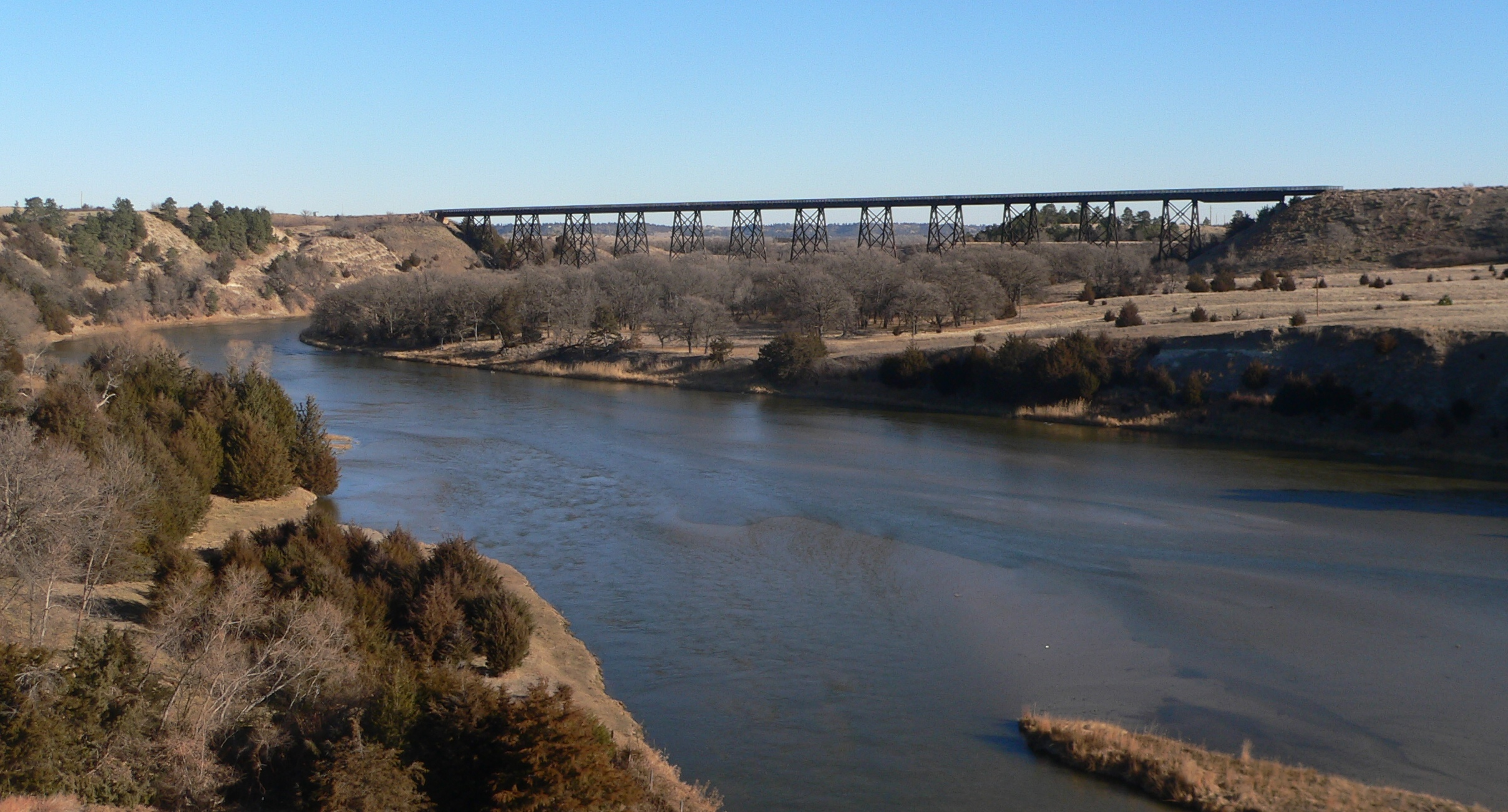 Bridge carrying Cowboy Trail across Niobrara River southeast of Valentine, Nebraska, just downstream from the U.S. Highway 20 crossing of the river.